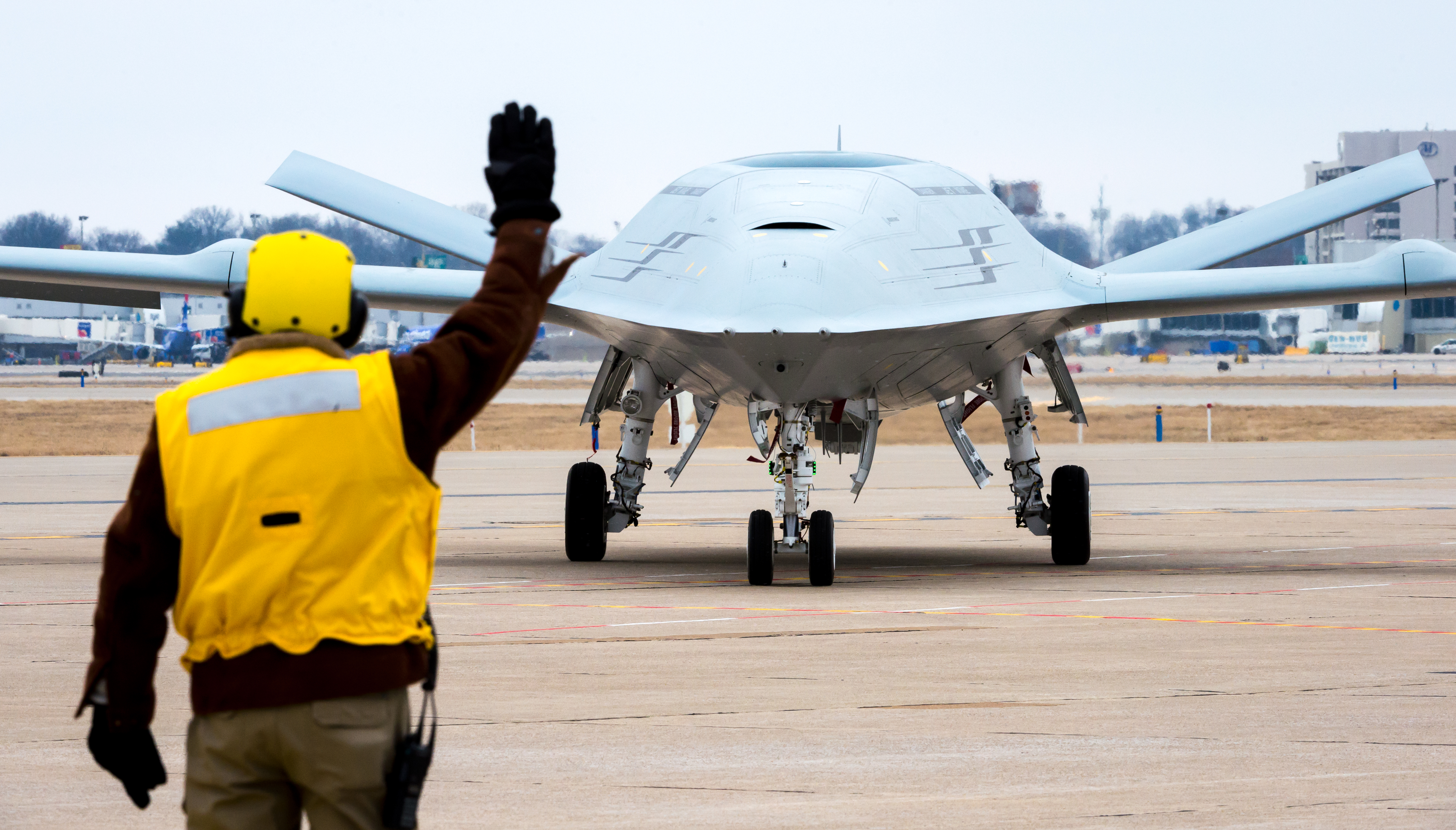 WASHINGTON (Aug. 30, 2018) File photo dated January 29, 2018. Boeing conducts MQ-25 deck handling demonstration at its facility in St. Louis, Mo. (U.S. Navy photo courtesy of The Boeing Co.)